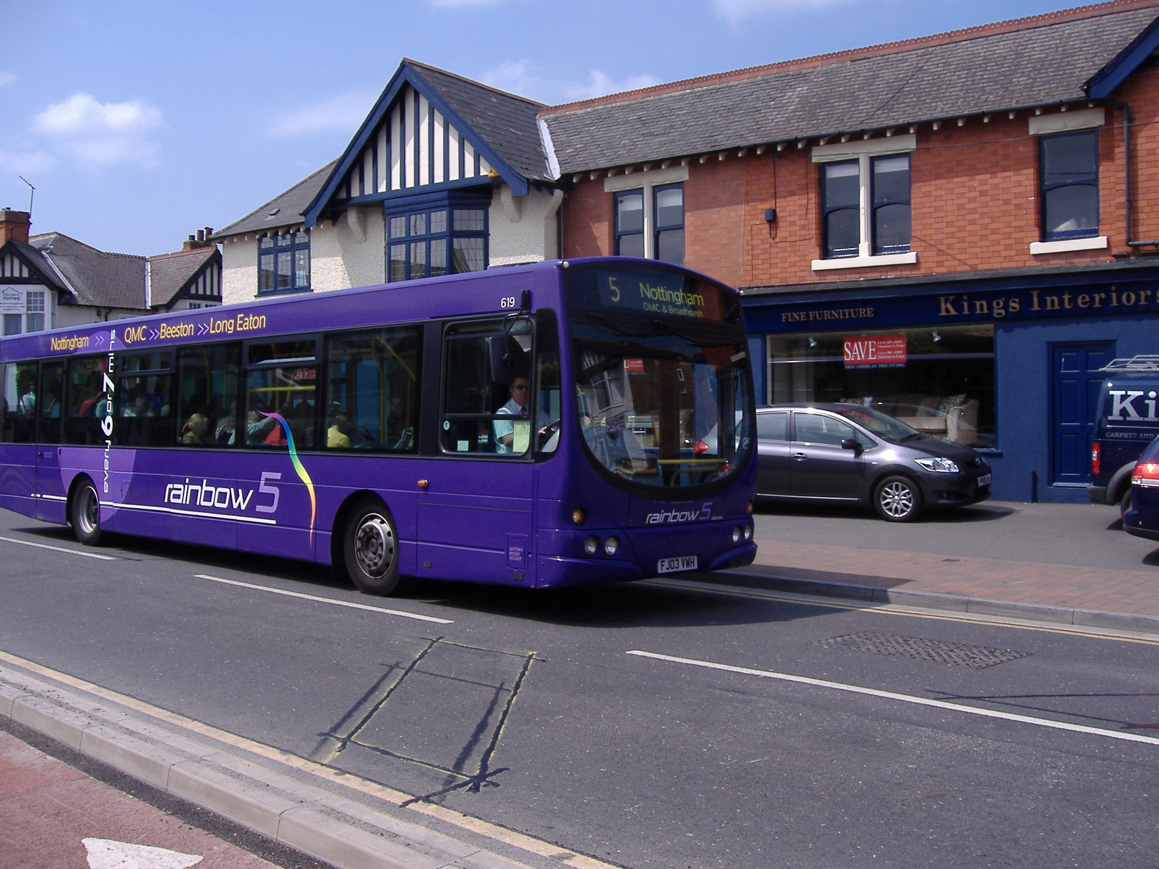 Trent Barton 619 (FJ03 VWH), a Scania L94UB/Wright Solar bus, in Beeston, near the Nottingham and Derbyshire border, on the Rainbow 5 route.